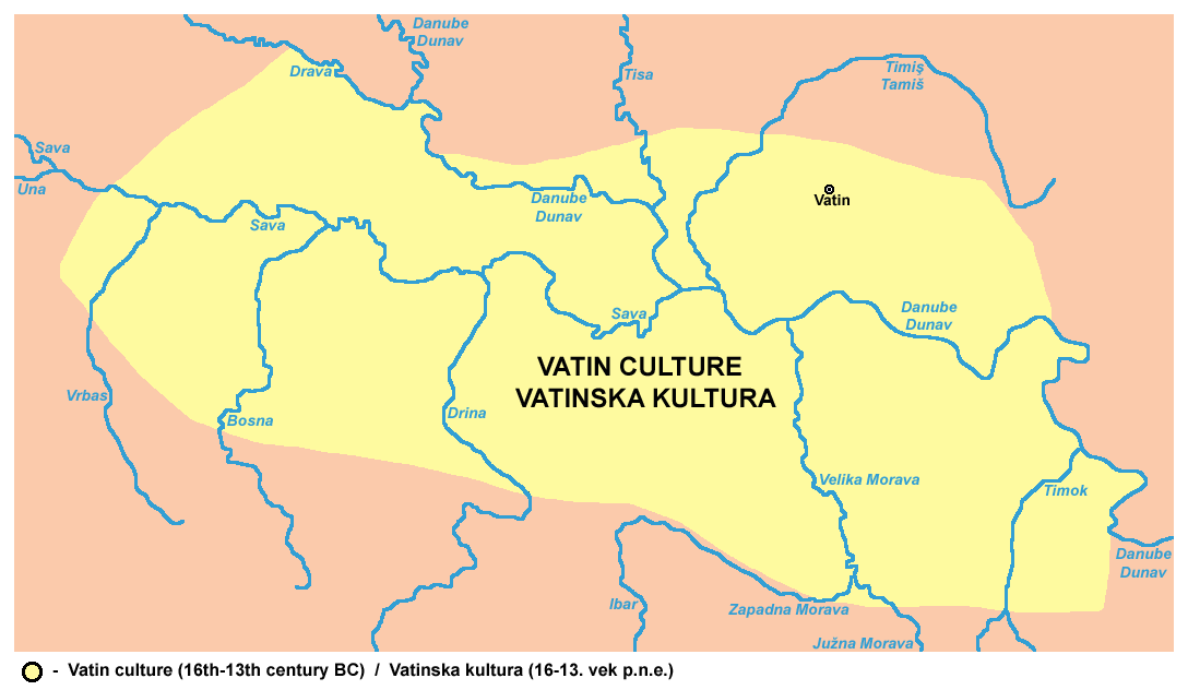 Vatin culture (16th-13th century BC).